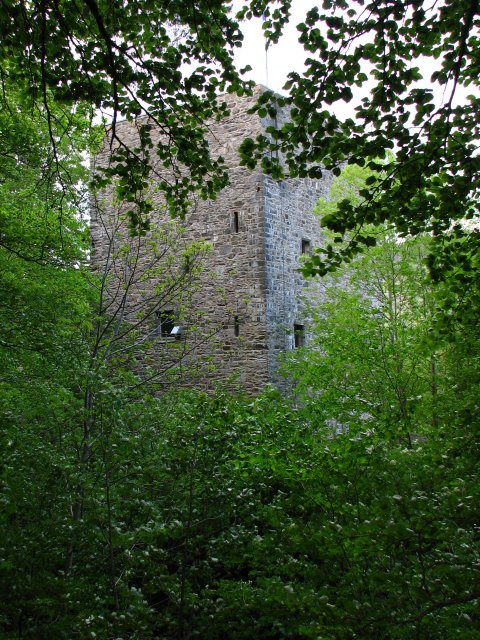 Garth Castle. A traditional Scottish keep, restored as a private home.